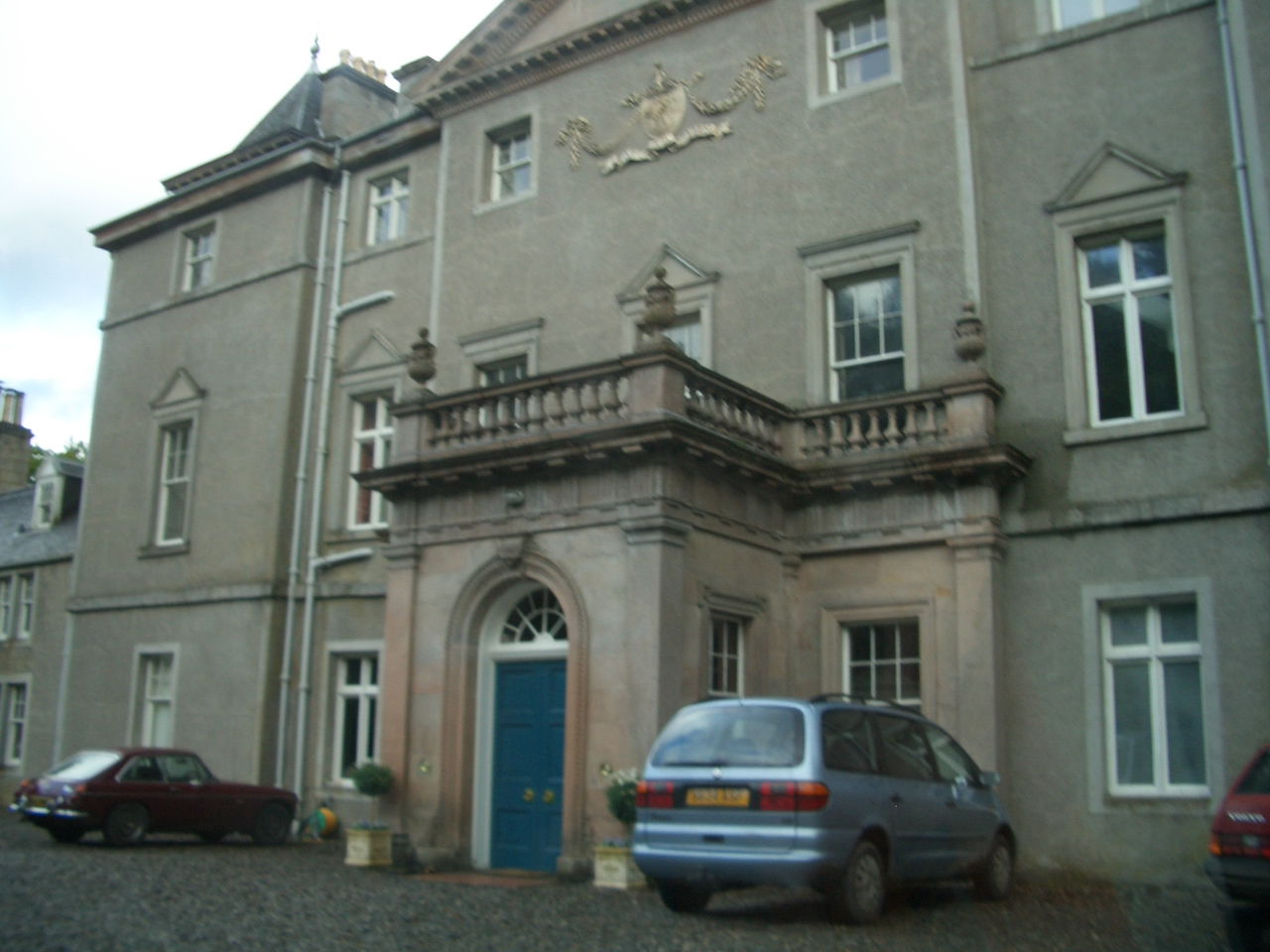 Balavil House, Highland, Scotland. Knows as "Kilwillie Castle" in the Television series "Monarch of the Glen".